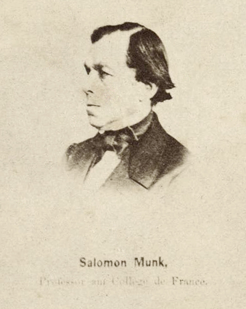 Picture of Salomon Munk